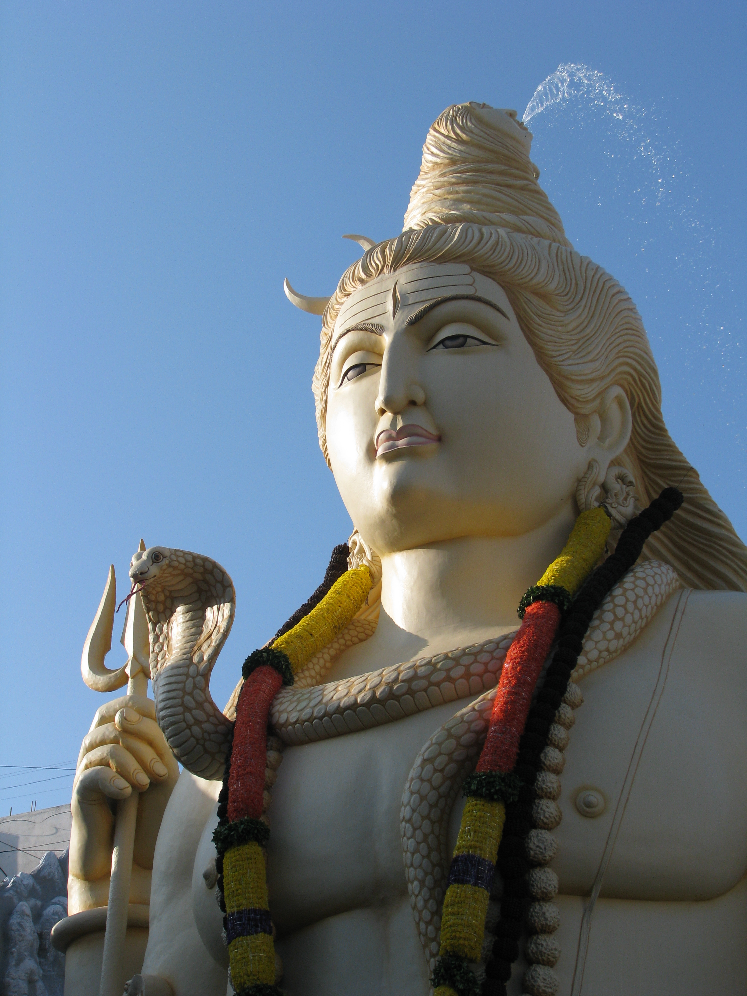 Shiva Satatue at Shivoham Shiva Temple, 65 feet tall